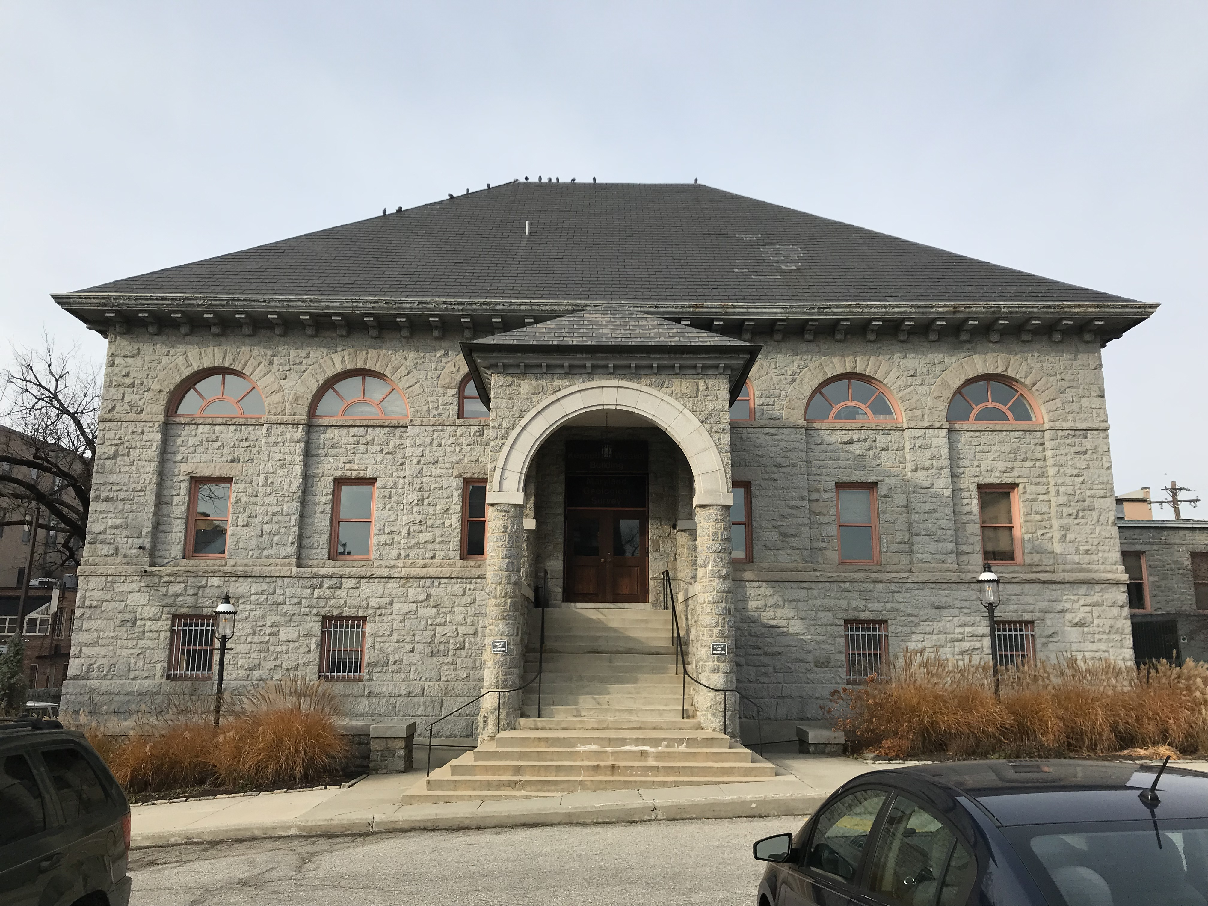 Photograph by Eli Pousson, 2017 December 4.